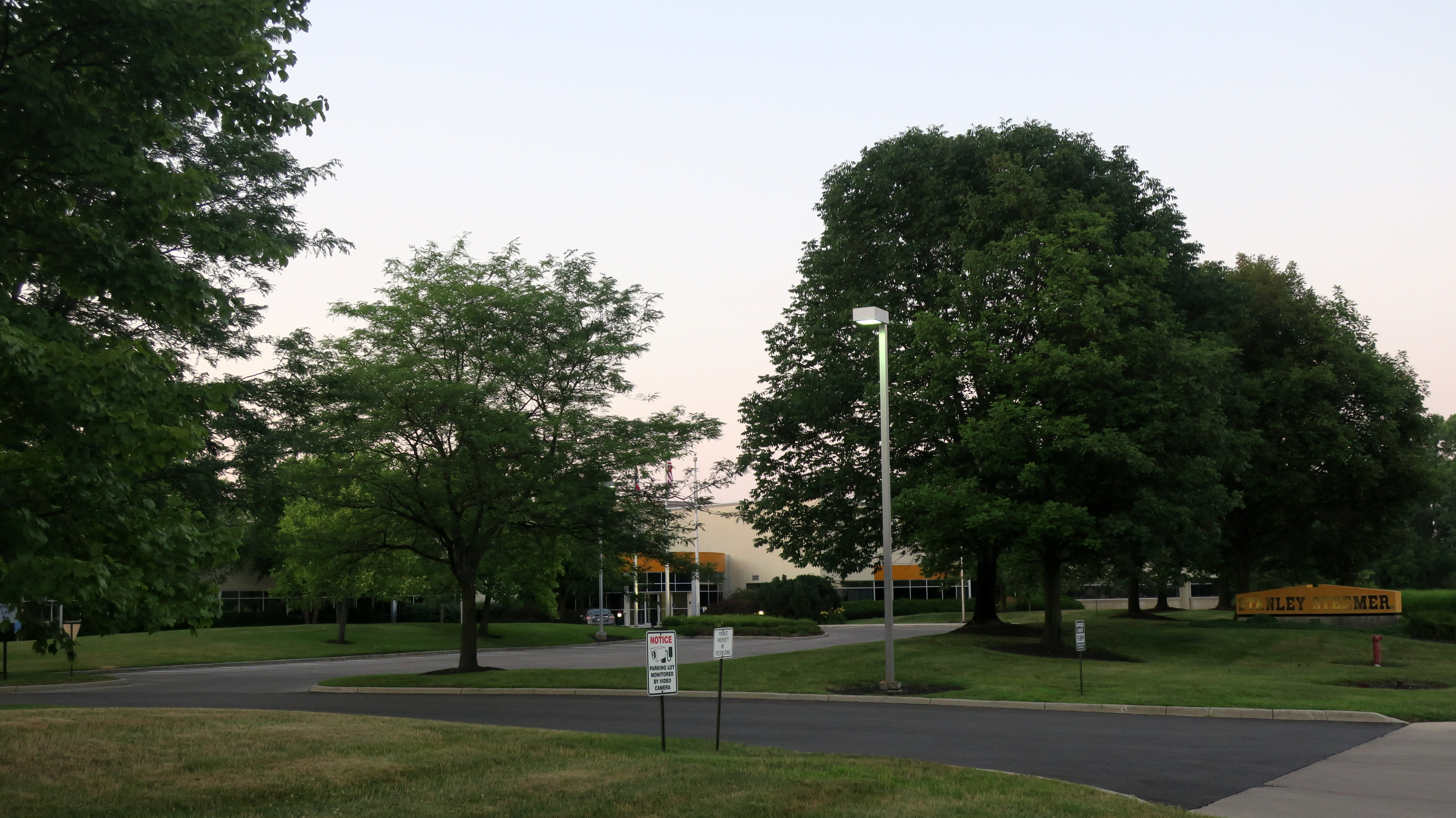 Stanley Steemer headquarters (Dublin, Ohio)